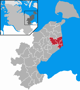 This map shows the area of the Amt (county) Grube in the Kreis (district) Ostholstein, Schleswig-Holstein, Germany.